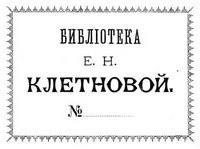 E. N. Kletnova library. Ex libris